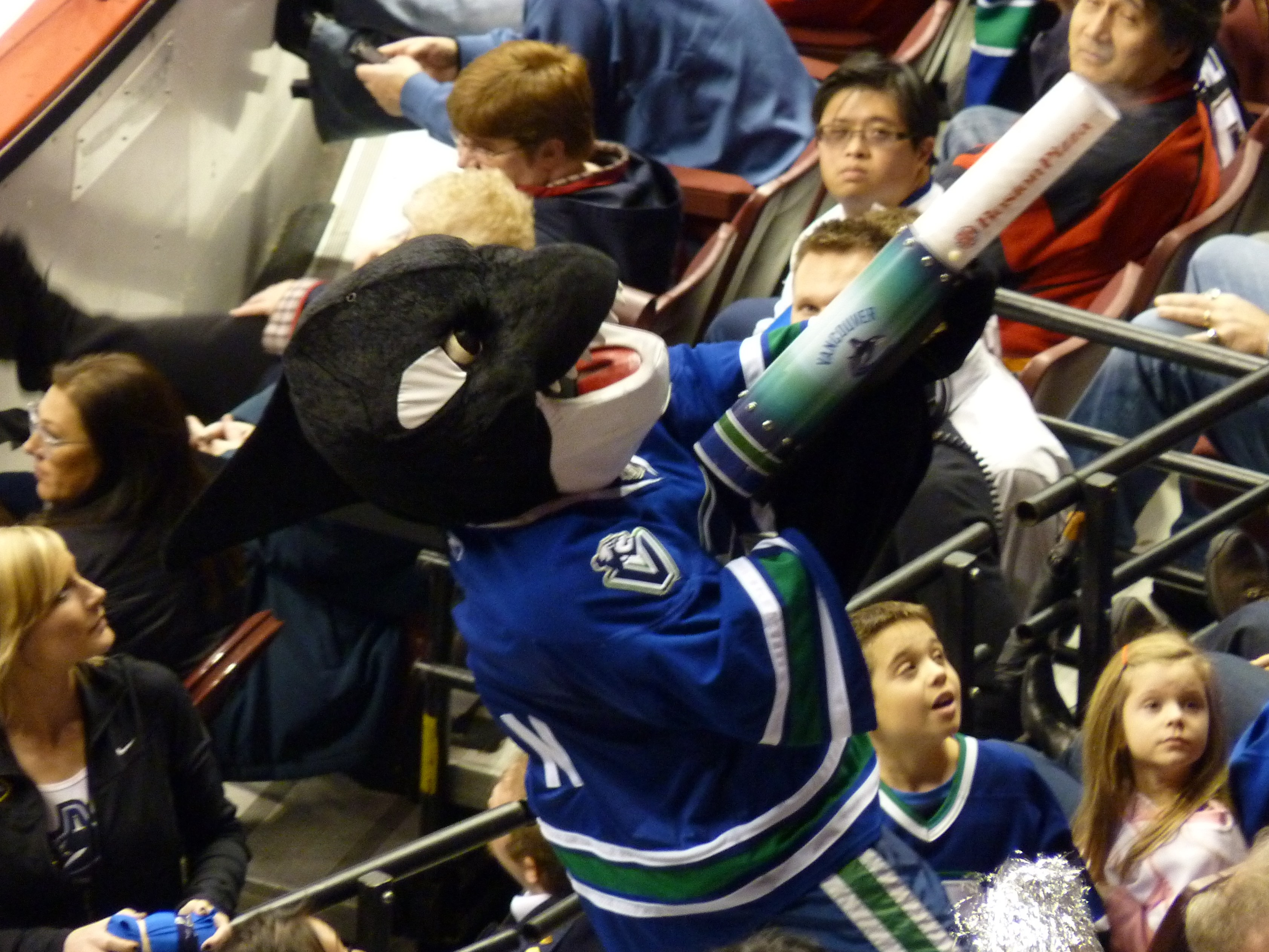 Fin, the official mascot of the Vancouver Canucks, fires a t-shirt cannon into the General Motors Place stands on November 22, 2009 during a match between the Canucks and the Chicago Blackhawks.